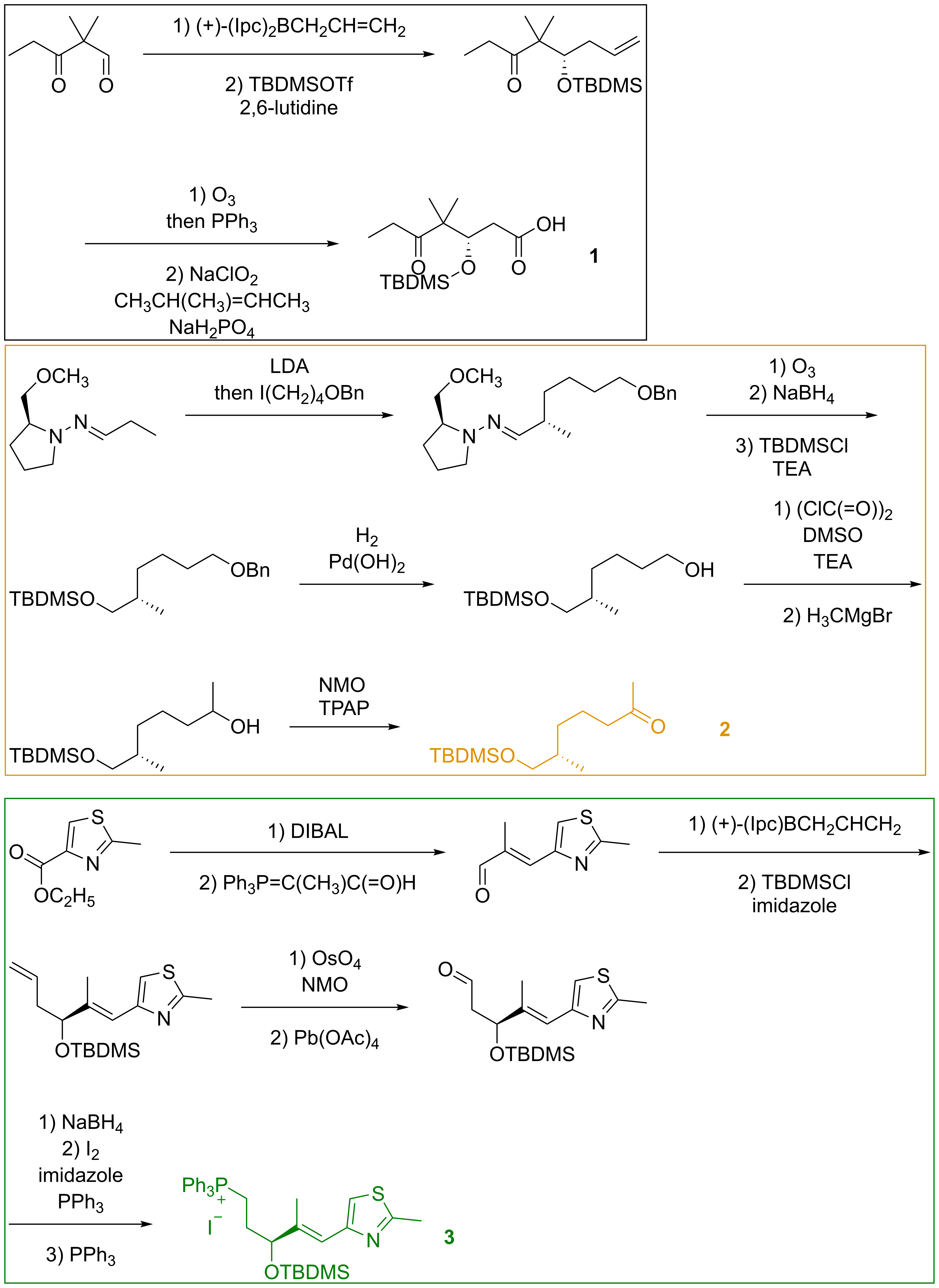 Construction of building blocks for epothilone B. They were required in total synthesis of epothilone B carried out by Kyriacos Nicolaou et al. in 1997. The file was made by ChemBioDraw Ultra 13. As a reference, the digital object identifier is This image replaces the original one ( made by Cuigy because this original version is in graphics interchange format having lower quality. In addition, the reagents do not have subscripted numbers.